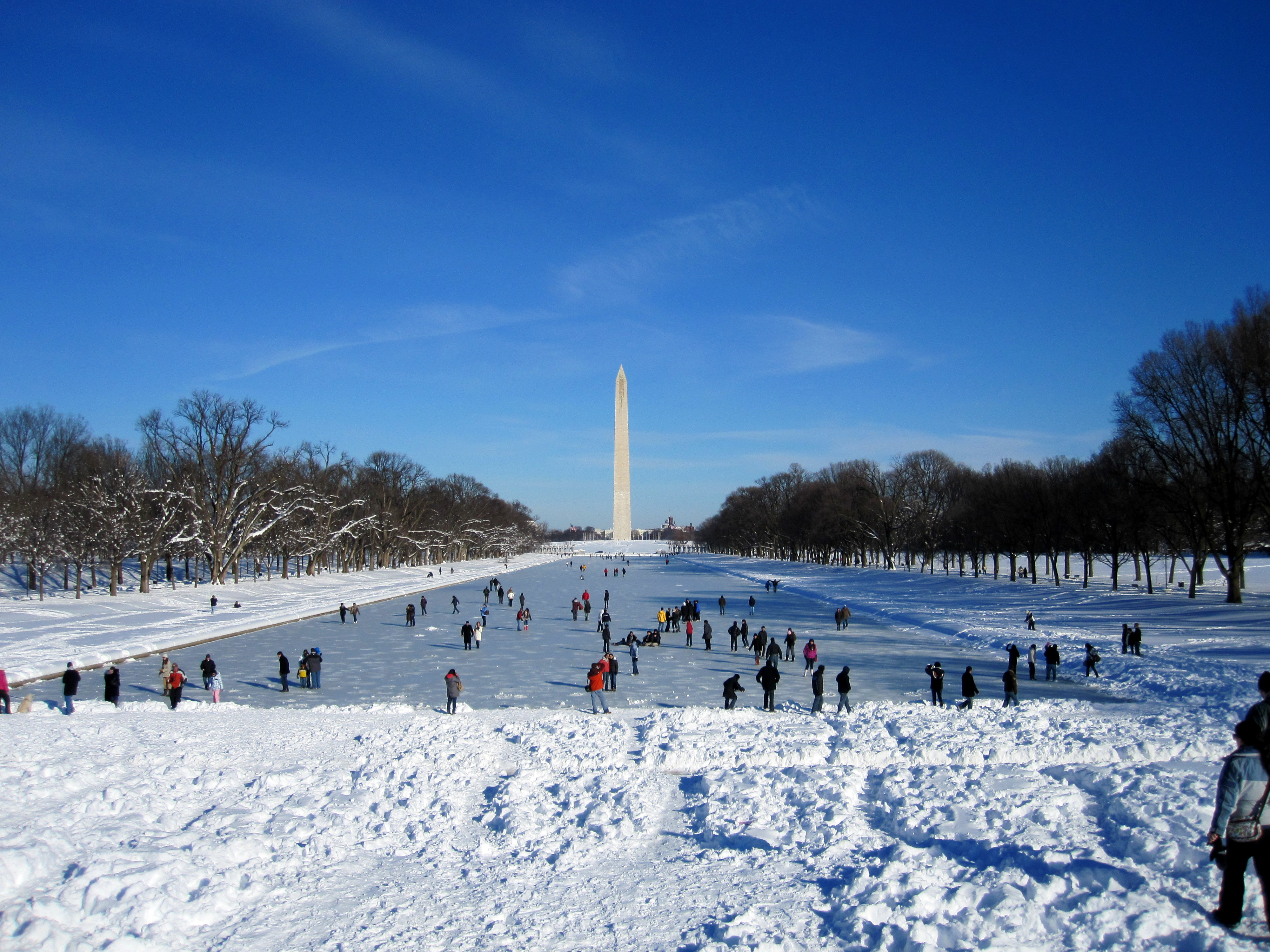 People walking over the ice covering the Lincoln Memorial Reflecting Pool, February 7, 2010, after the First North American blizzard of 2010